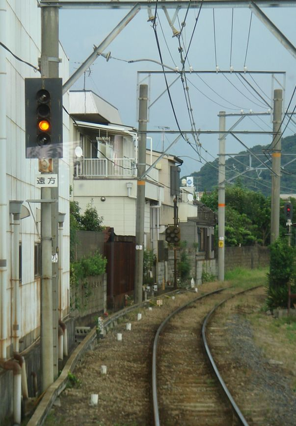 Distant signal of Japan, between Tanakaguchi station and Nichizengu station of Kishigawa line, Wakayama Electric Railway